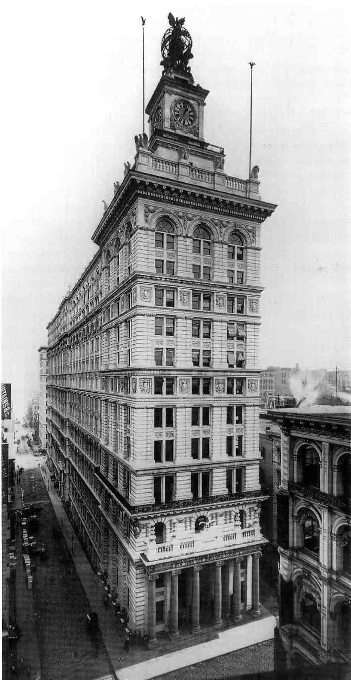 The former New York Life Insurance Company Building, also known as the Clock Tower Building, at 346 Broadway between Catherine and Leonard, was expanded from the original building by Stephen Decatur Hatch and McKim, Mead & White, between 1894 and 1899.